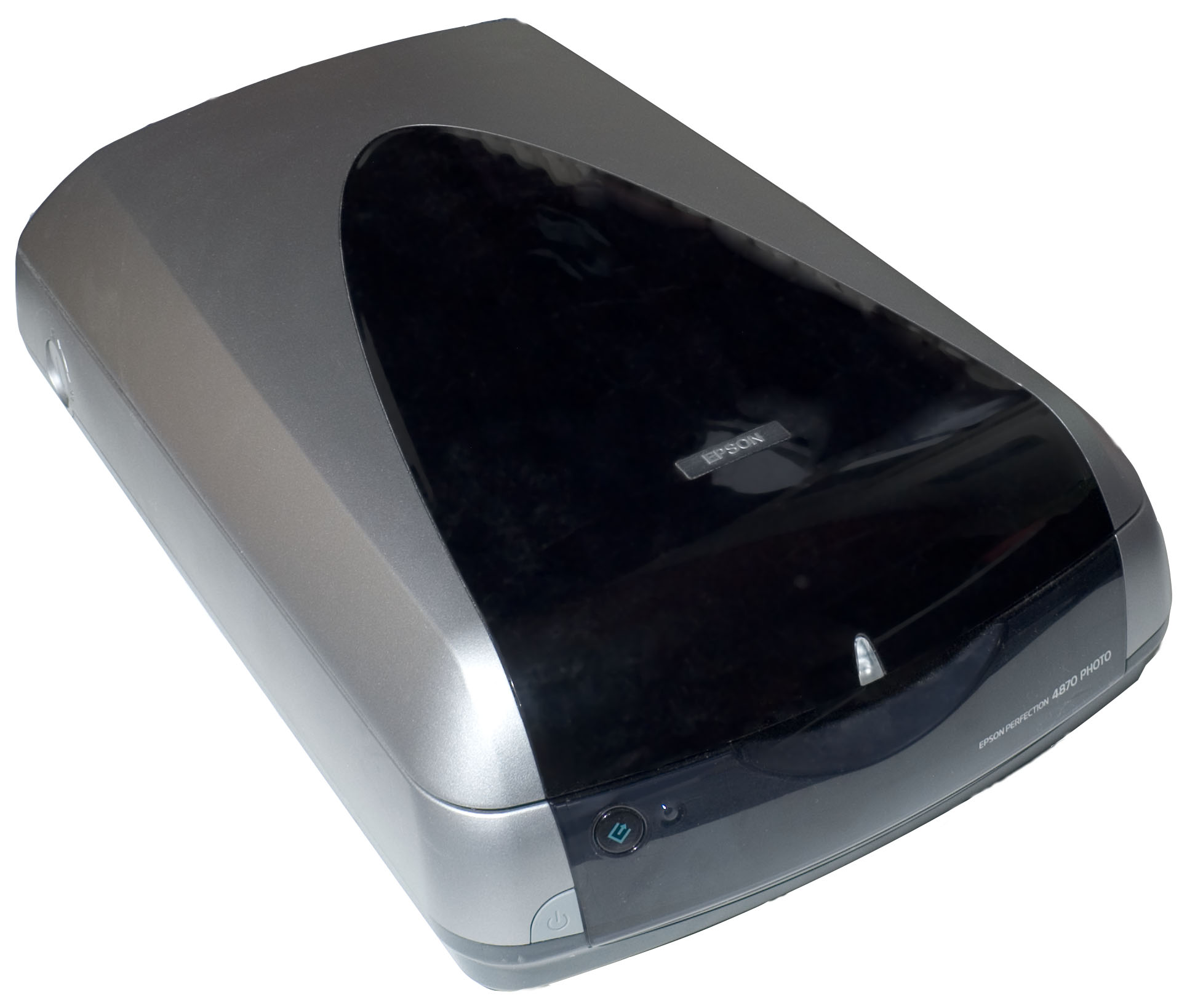 Scanner Epson 4870 photo Author: Inisheer